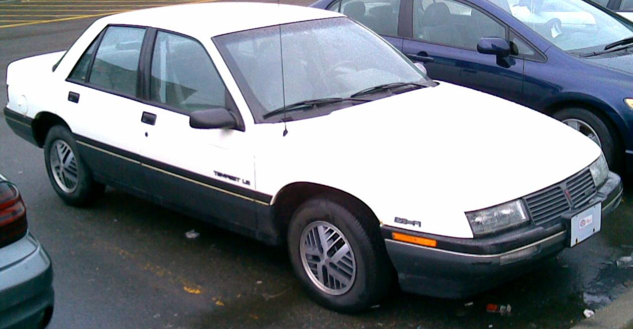 1988-1991 Pontiac Tempest photographed in Montreal, Quebec, Canada.